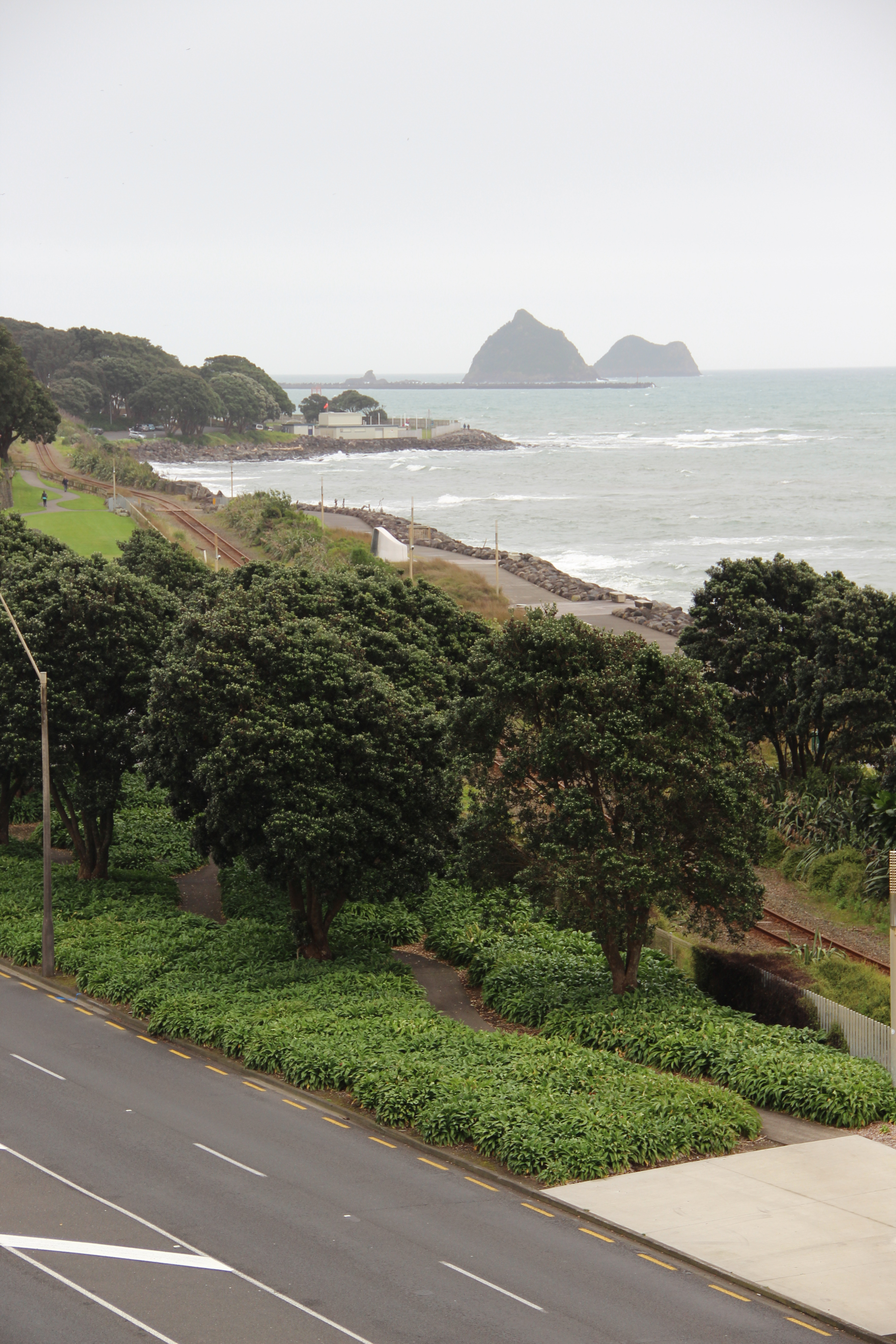 A section of the walkway in front of Puke Ariki.